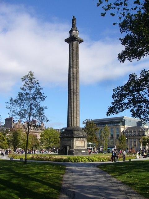 The 150 foot-high monument to Henry Dundas, 1st Viscount Melville, was designed by William Burn and erected in 1821. The statue was sculpted by Robert Forrest. Dundas was appointed Solicitor for Scotland at the age of 24. After being elected MP for Midlothian in 1774, he served under the Younger Pitt and was appointed Treasurer of the Navy and, later, President of the India Board. Dundas was accused of establishing a Tory political despotism north of the Border, the Whig, Lord Cockburn calling him "the absolute dictator of Scotland". His political enemies nicknamed him "Harry the Ninth, uncrowned King of Scotland". Dundas' patronage was essential to any aspiring politician of his time and it was his influence that secured many Scots high positions in the Indian Administration.